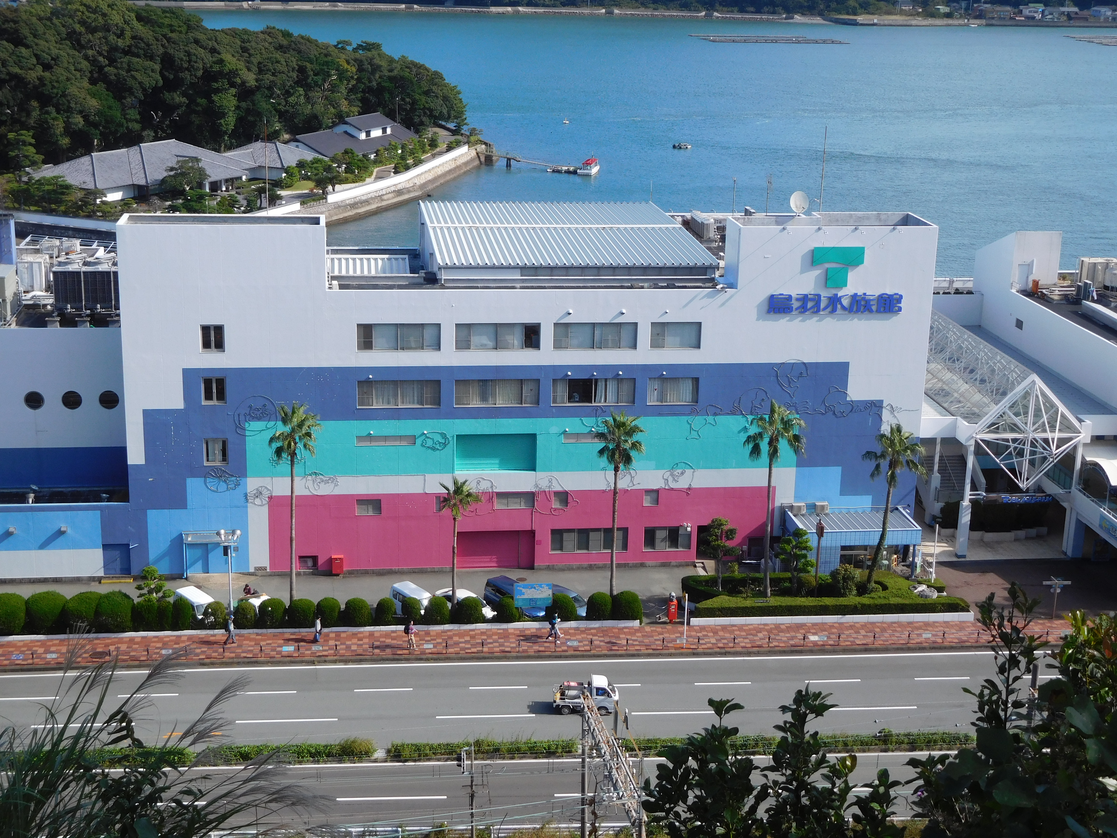 This is Toba Aquarium view from Toba Castle site (former Toba elementary school playground).